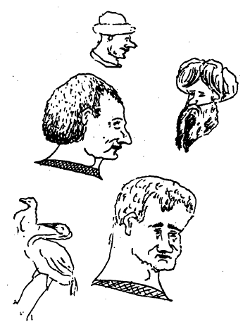 Sultan Mehmed II. Fatih has left a scrap-book of pen and ink drawings which include these profile and three-quarter face portrait busts.